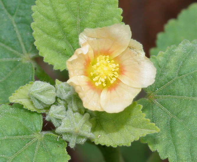 Bala, Khareti or Country Mallow Sida cordifolia in Hyderabad , India.